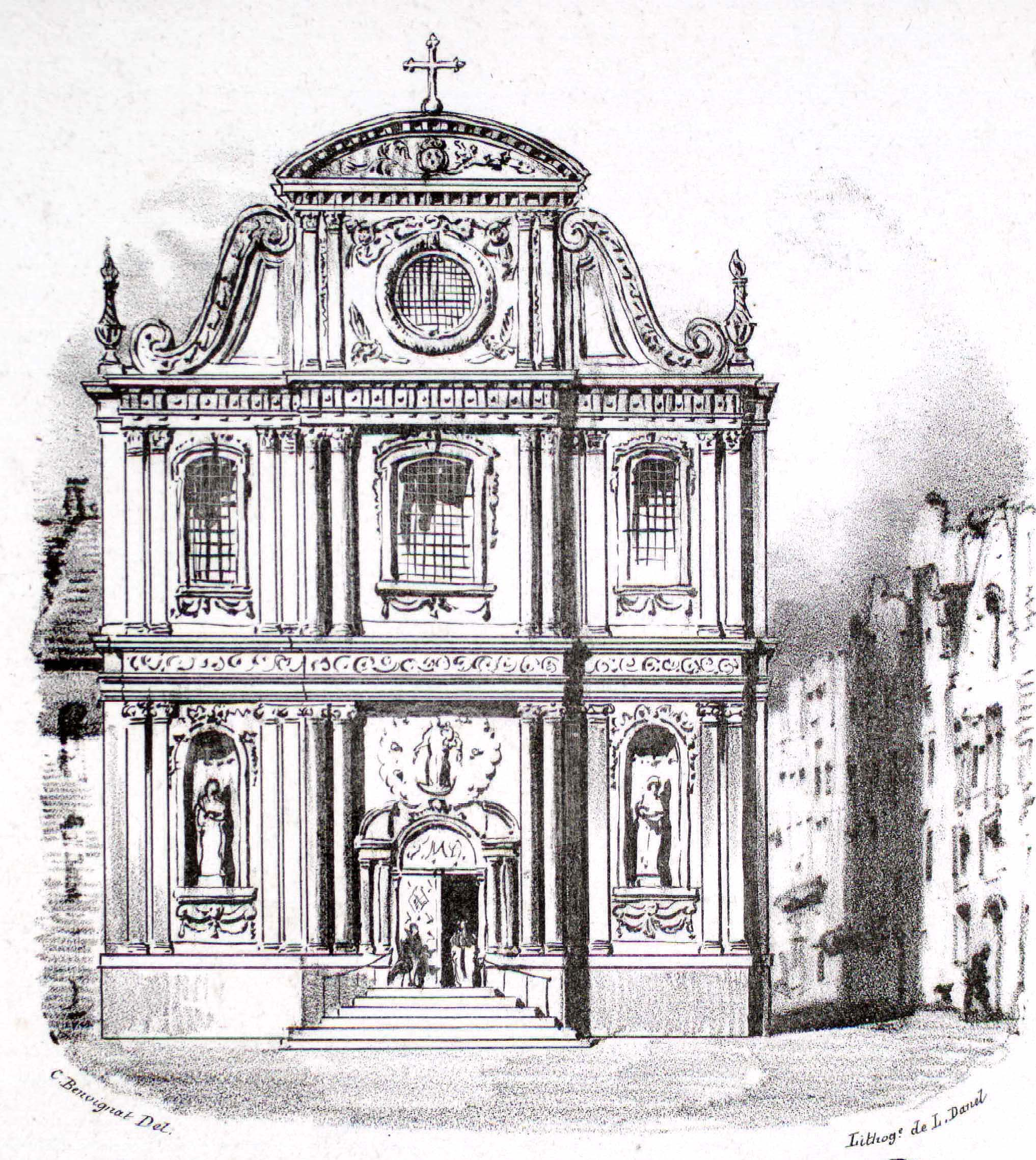 Titre : Portail de l'église des dominicains.Église située rue du Cirque.